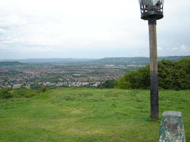 Trigpoint, Robinswood Hill, Gloucestershire. This is the trigpoint at the top of Robinswood Hill, Gloucester and Cheltenham are visible in the distance. The beacon was used during the Golden Jubilee.